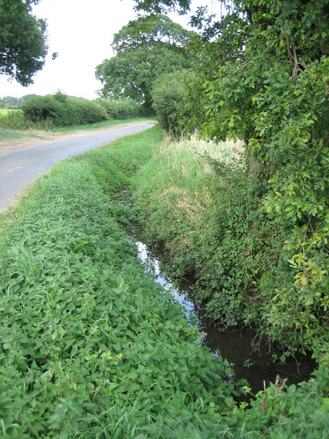 Headwaters of Panford Beck feeding into Black Water